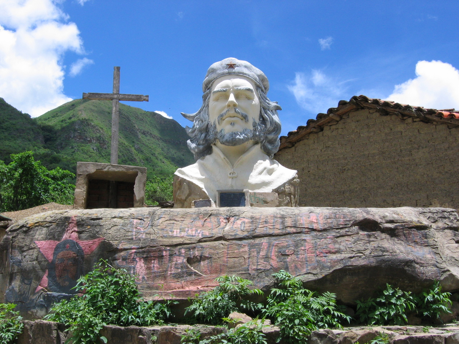 Photo of a Che Guevara statue at the site of his death in Bolivia.